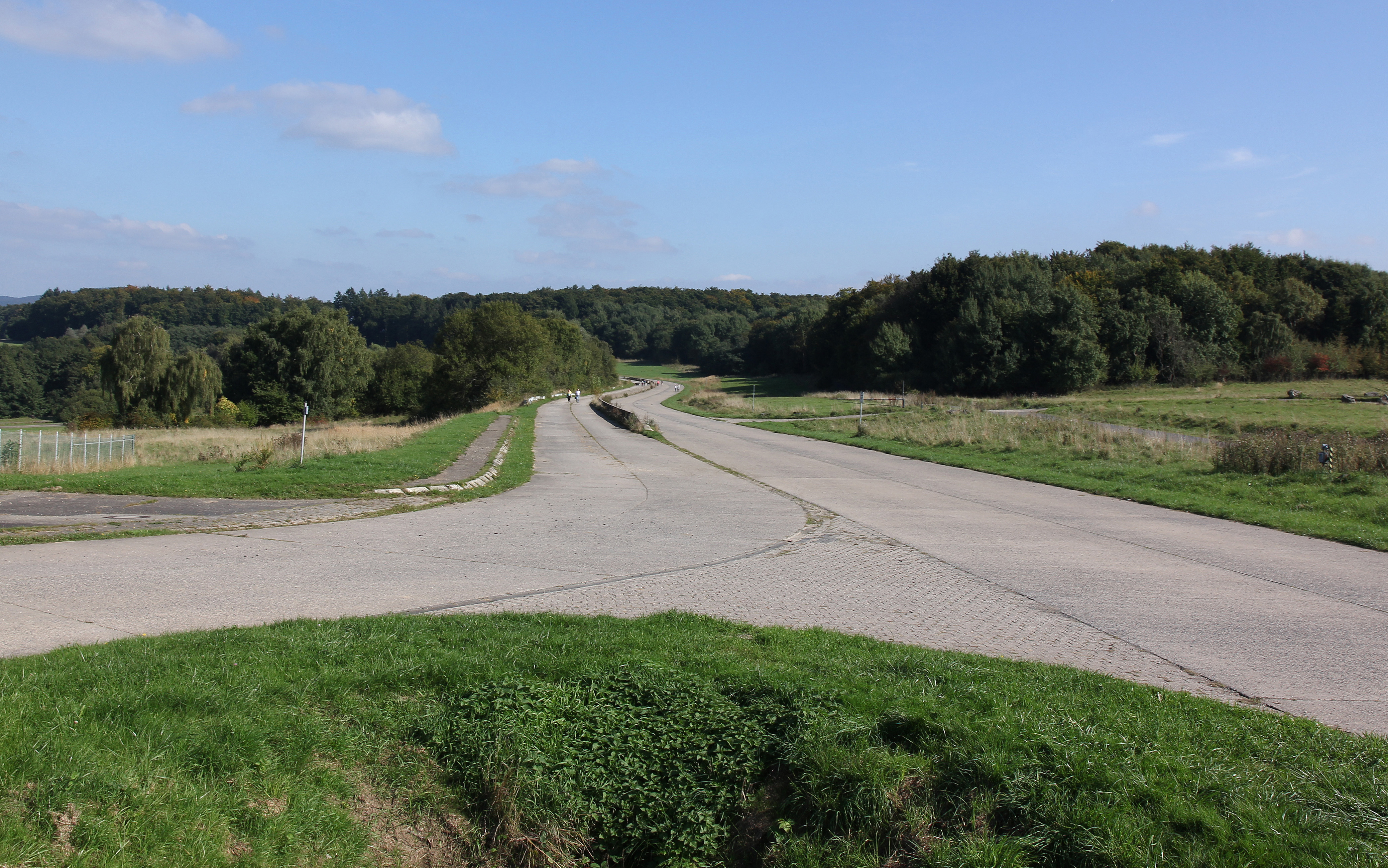 Standortübungsplatz Koblenz-Schmidtenhöhe in Koblenz